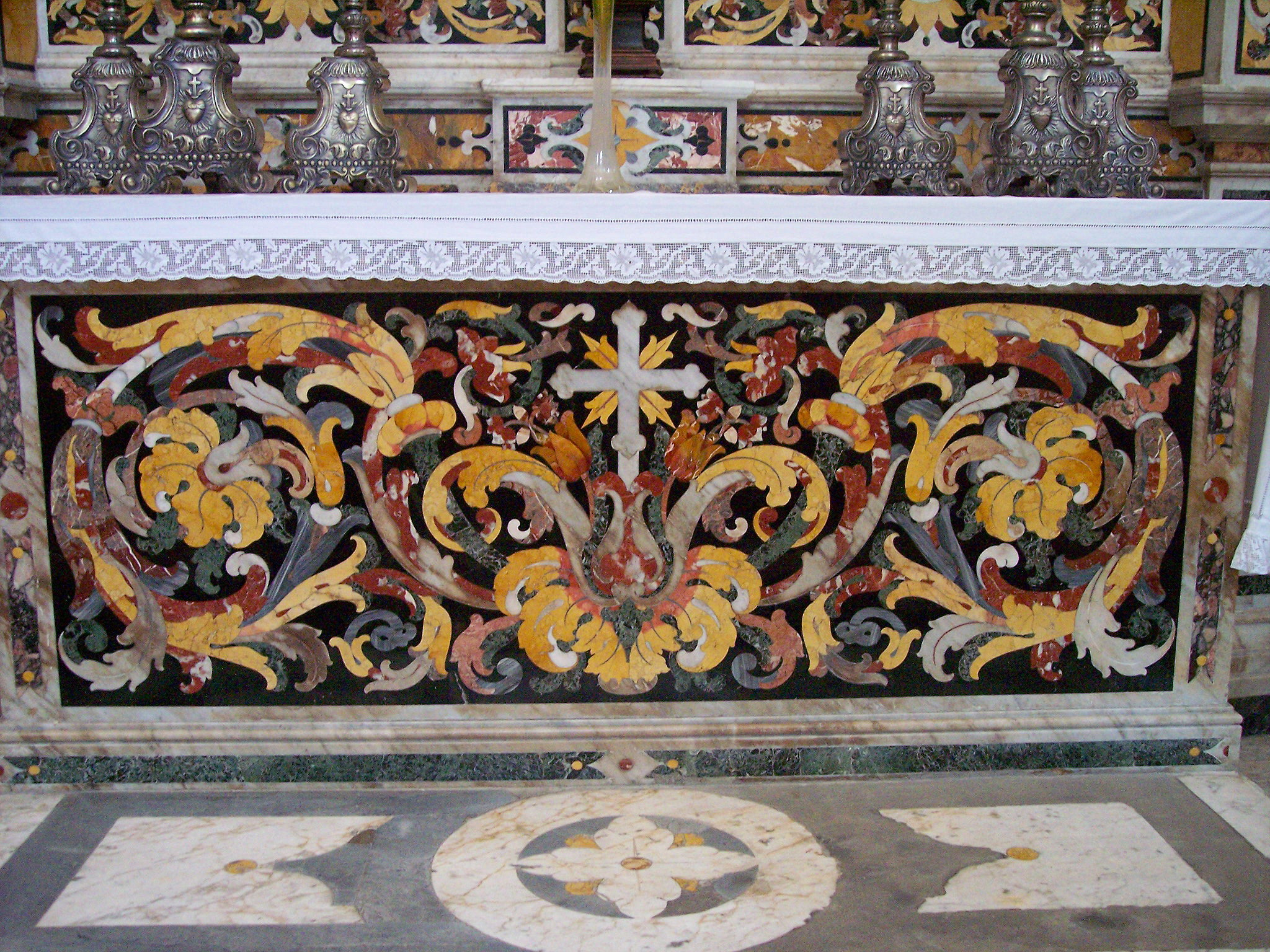 Cathedral of the Assumption of the Virgin Mary (or Velika Gospa) in Dubrovnik (Croatia)